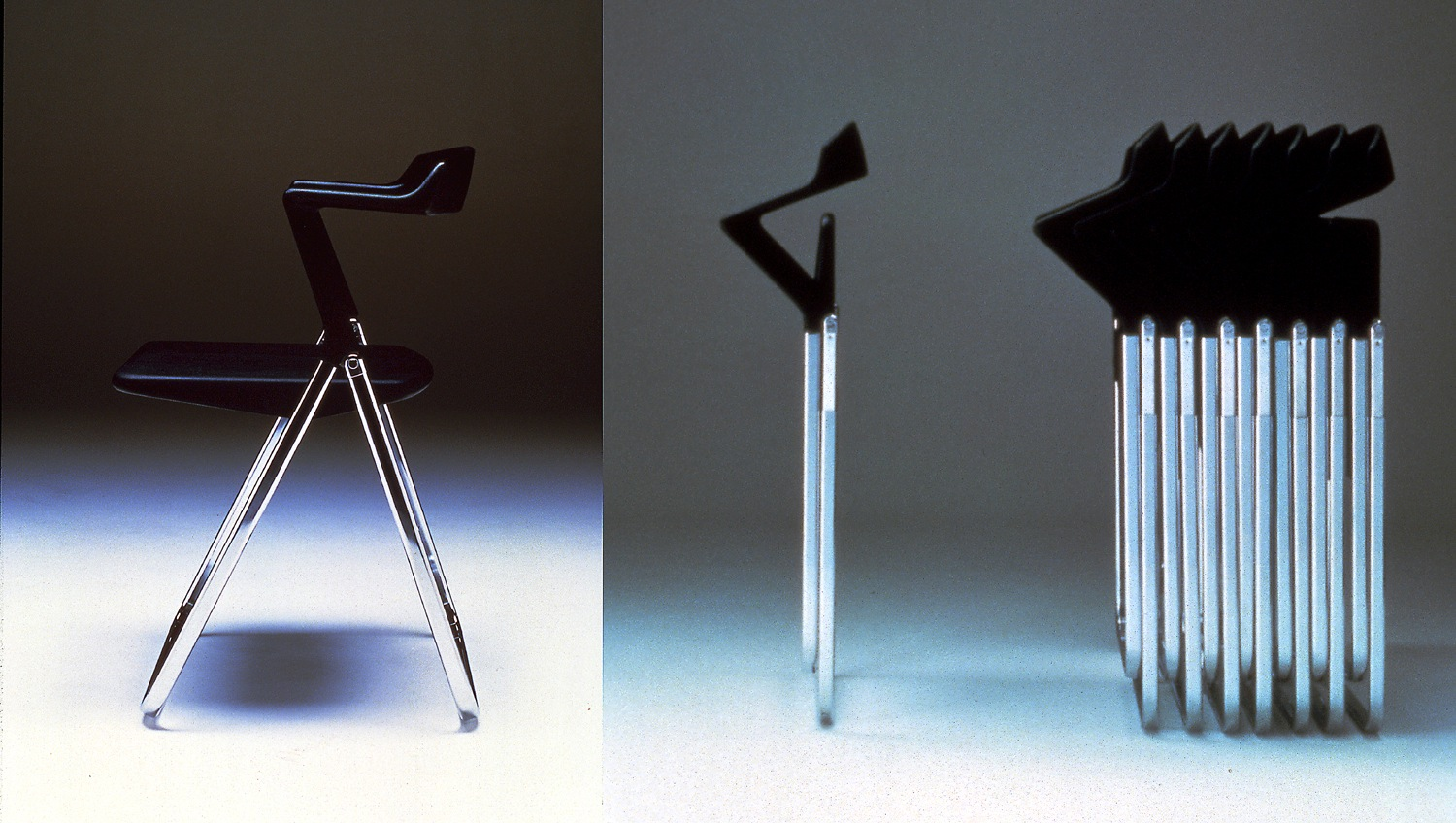 Works of KAWAKAMI Motomi 003-1981